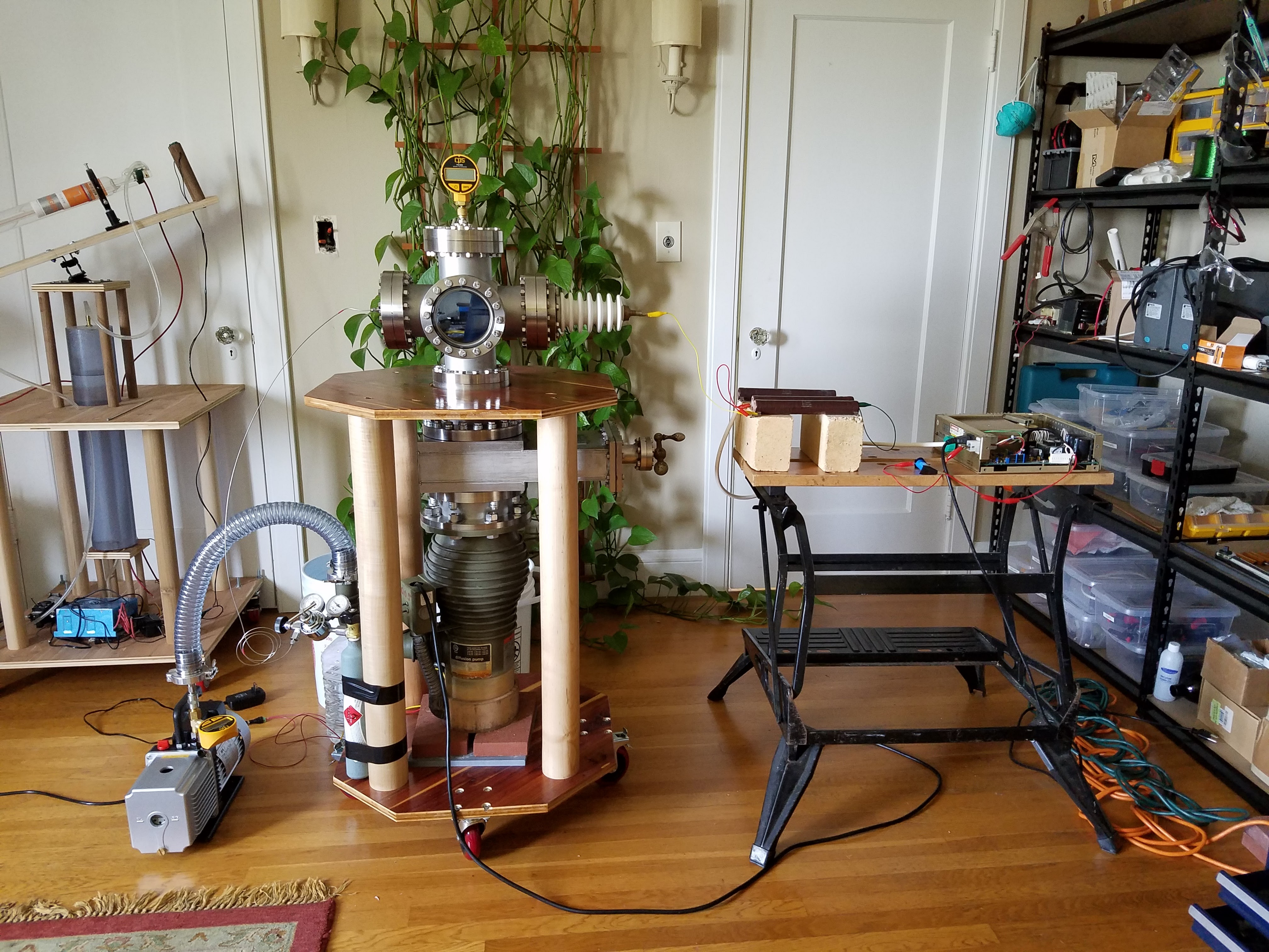 Kuba and Noah Anglin's fusor inside their bedroom lab.